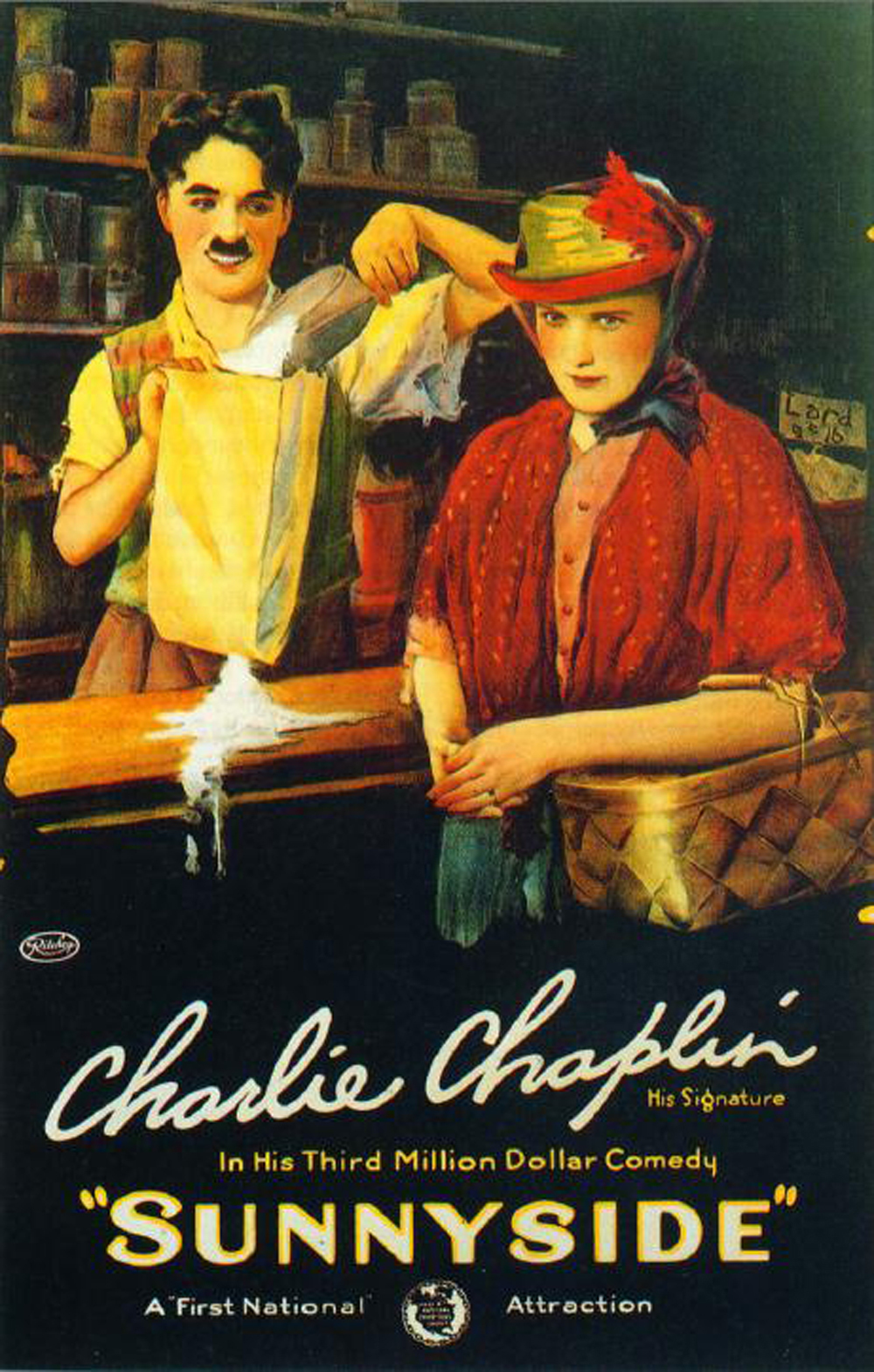 1919 movie poster for Sunnyside by Charlie Chaplin.